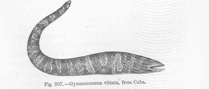 Gymomuraena vittata, from Cuba Subject: Morays Tag: Fish